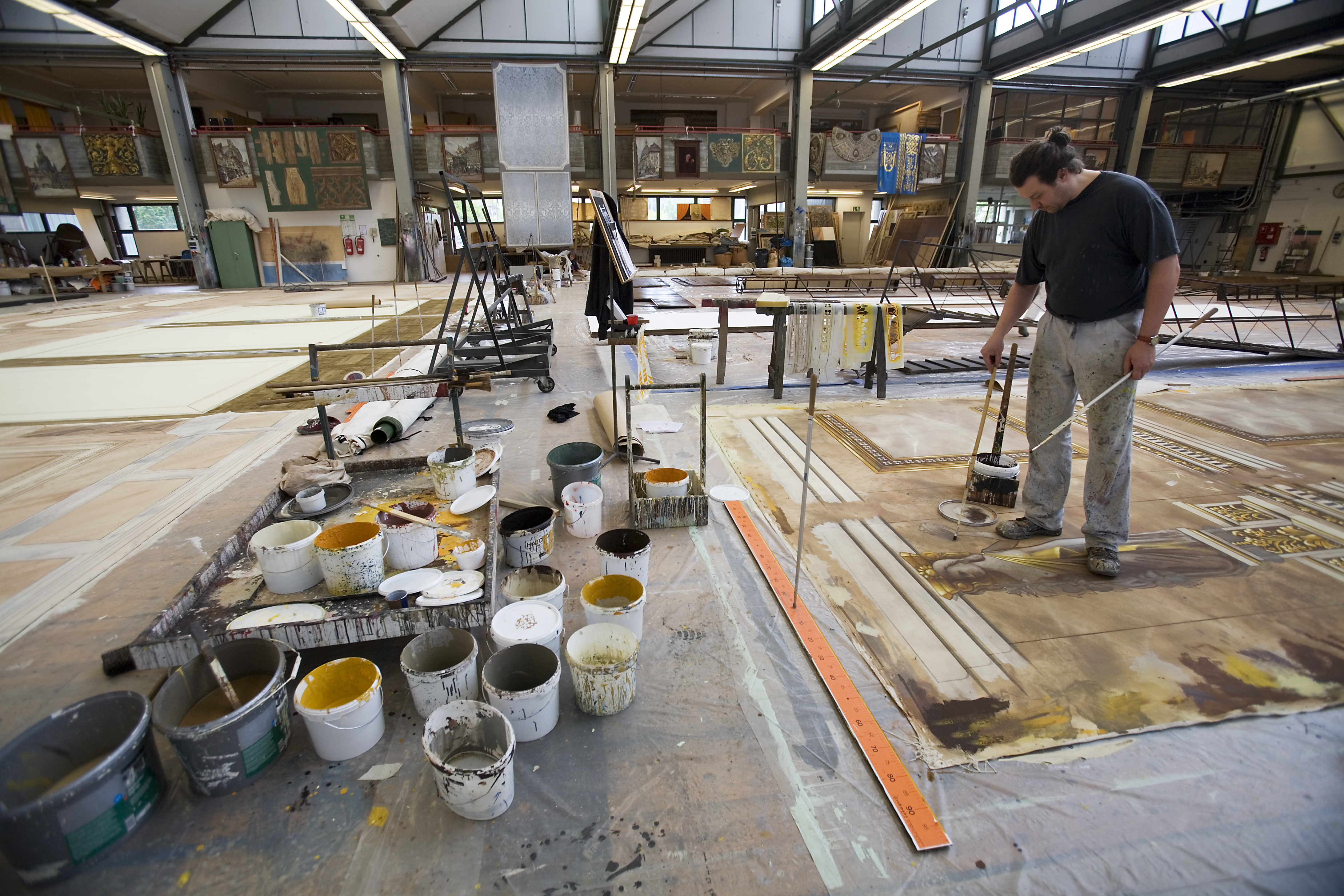 Scenography, set construction and theatrical scenery